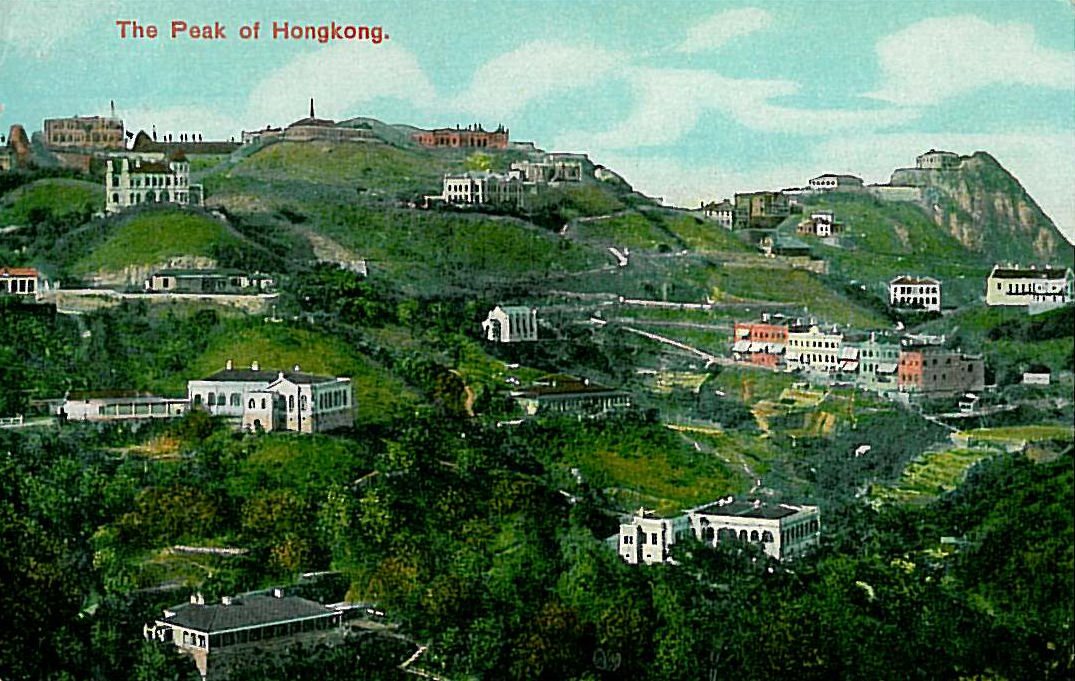 historic view of Hongkong